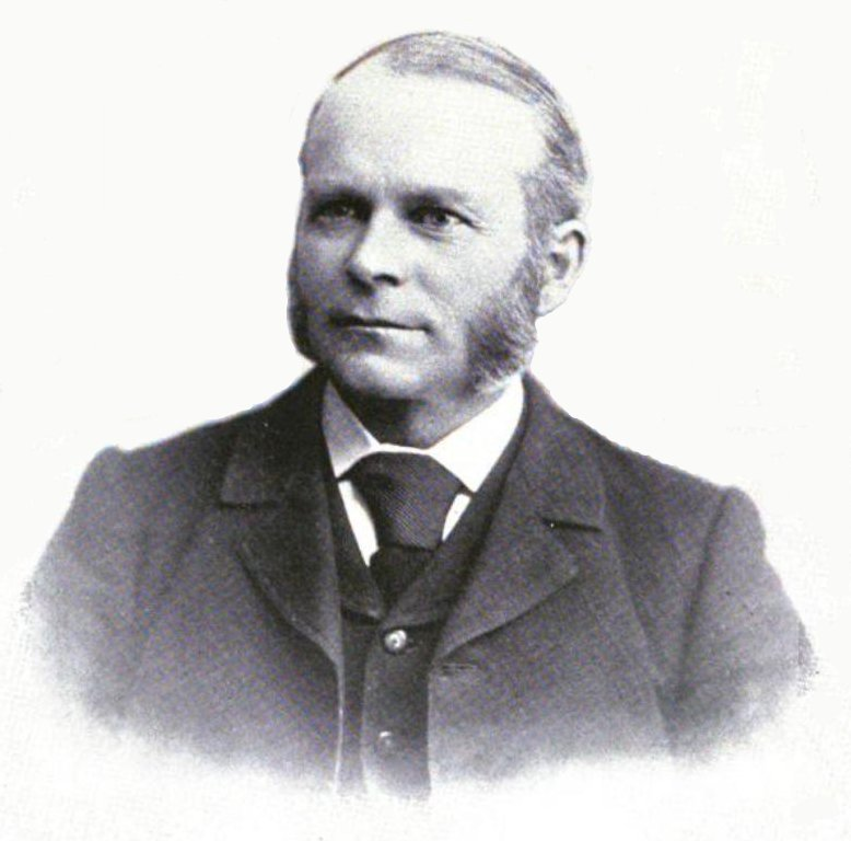 Photograph of F. H. Snow, the fifth Chancellor of the University of Kansas. From Google Books archive: Title Quarter-centennial history of the University of Kansas, 1866-1891 Authors Wilson Sterling, James Burrill Angell, Carrie M. Watson, Arthur Graves Canfield, D. H. Robinson Editor Wilson Sterling Publisher G.W. Crane & co., 1891 Original from the University of Michigan Digitized Jun 26, 2007